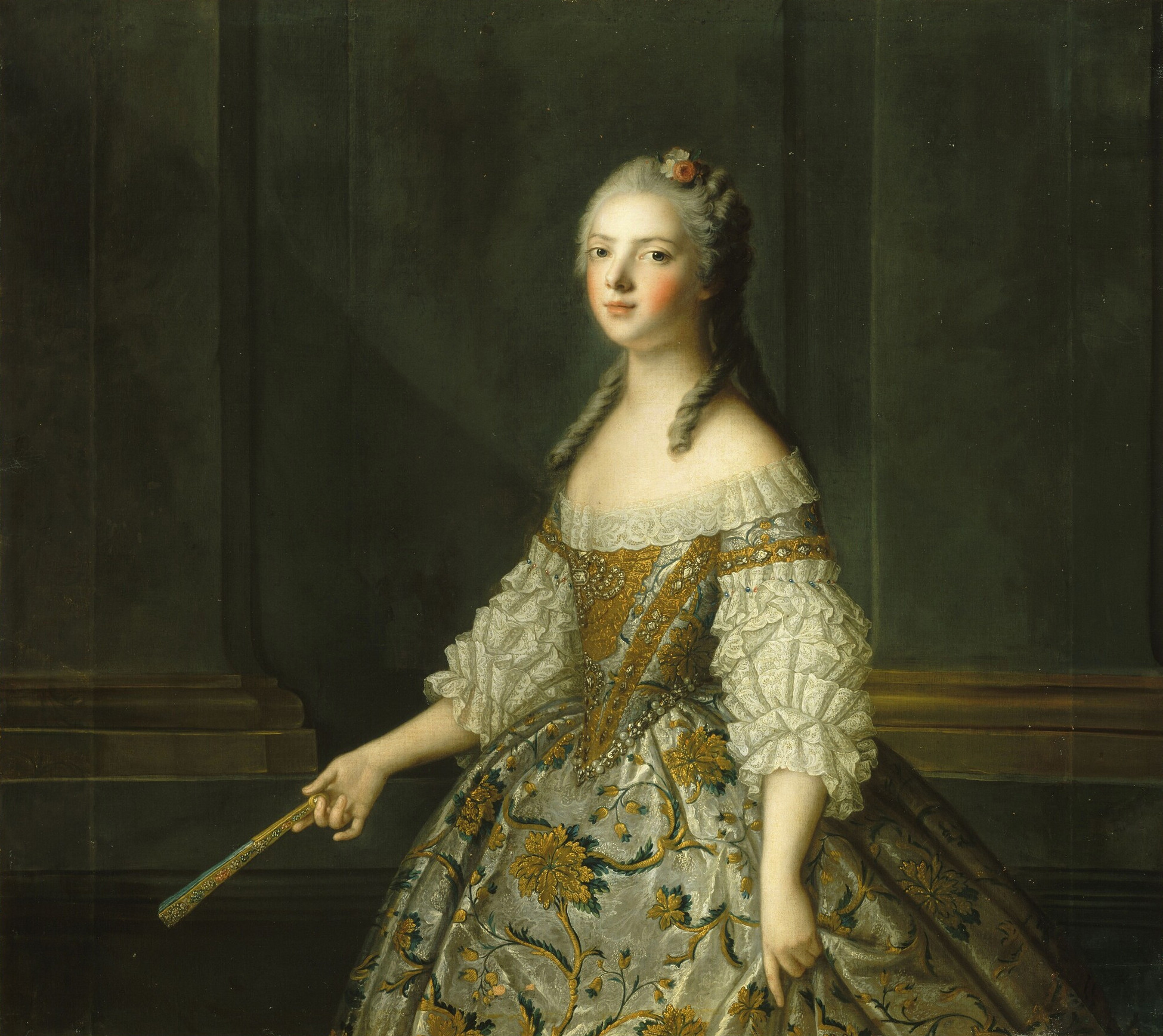 Marie Adélaïde of France (1732–1800), known as Madame Adélaïde, daughter of Louis XV, in a court dress and holding a closed fan in her right hand